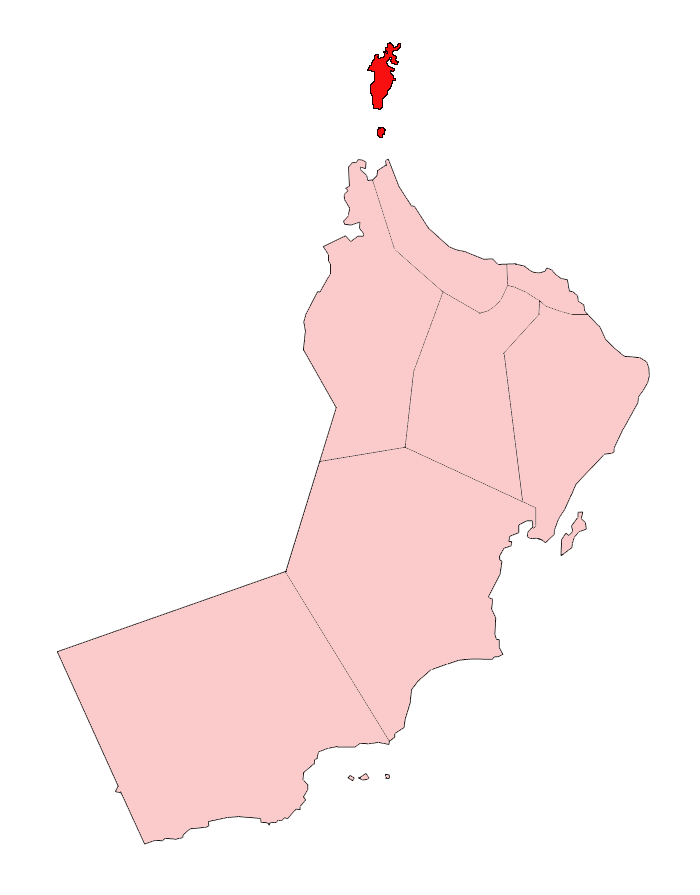 Map of Oman showing Musandam governorate